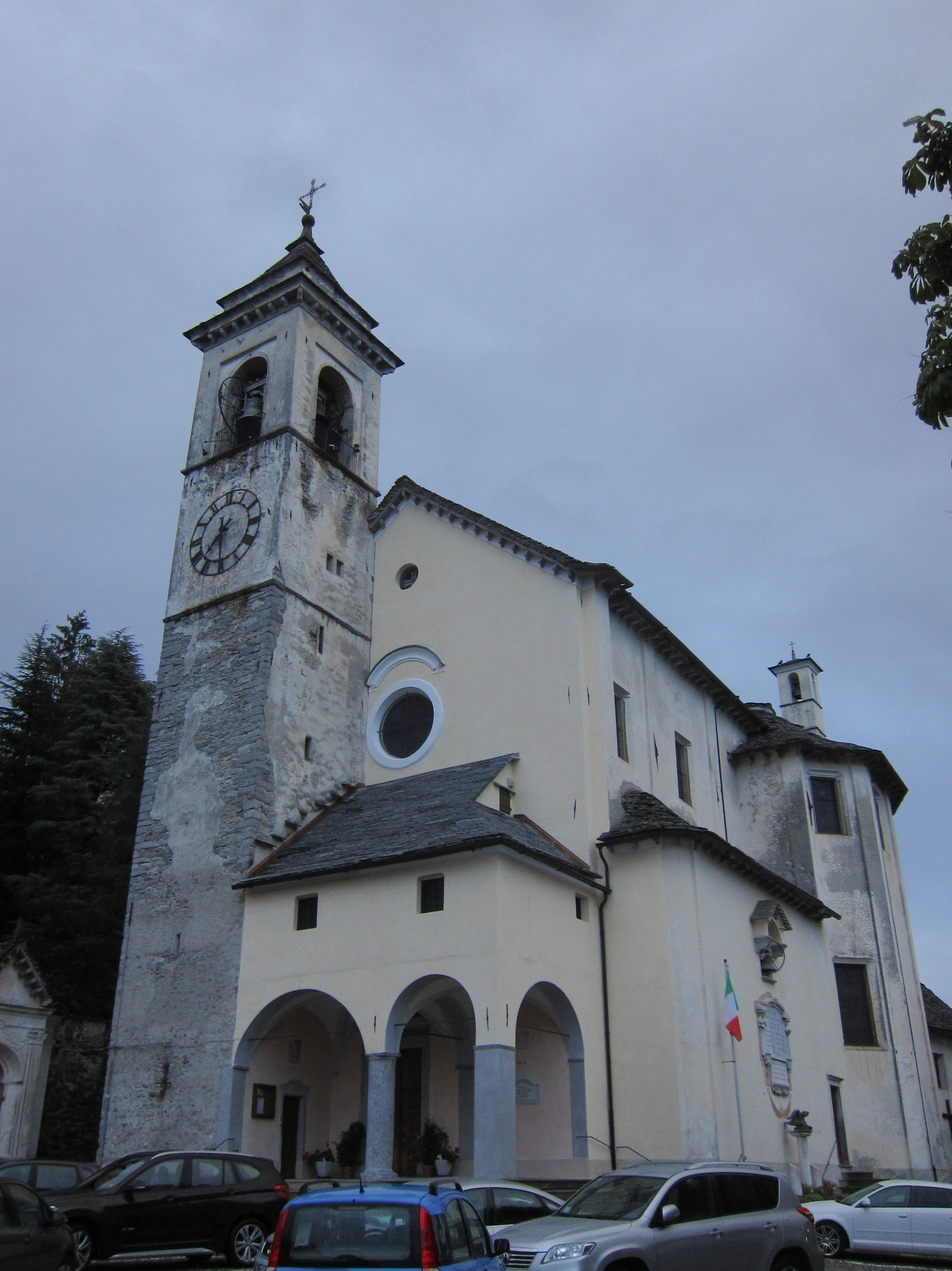 Church of Toceno village named "Chiesa Parrocchiale di Sant’Antonio Abate". Located in Toceno (VCO) in region Piedmont, in Italy. - 2018-08-31